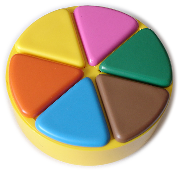 This is an alternate version of :Image:Trivialpursuit Token.jpg, with the background made transparent (masked out). Changes self-made in Macromedia Fireworks. Equazcion • argue/improves • 05:33, 10/17/2007